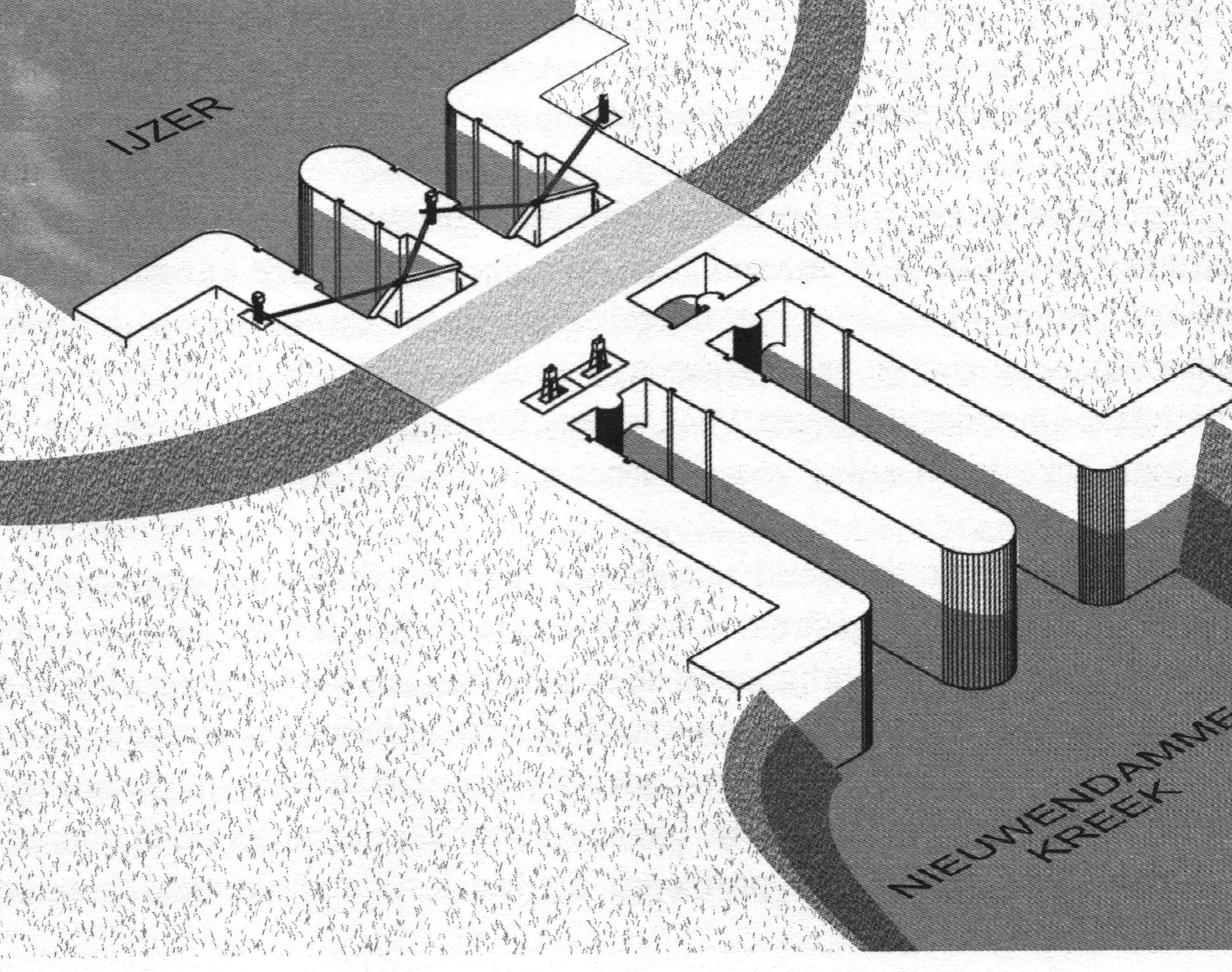 The floodgates at the mouth of the "Kreek van Nieuwendamme"